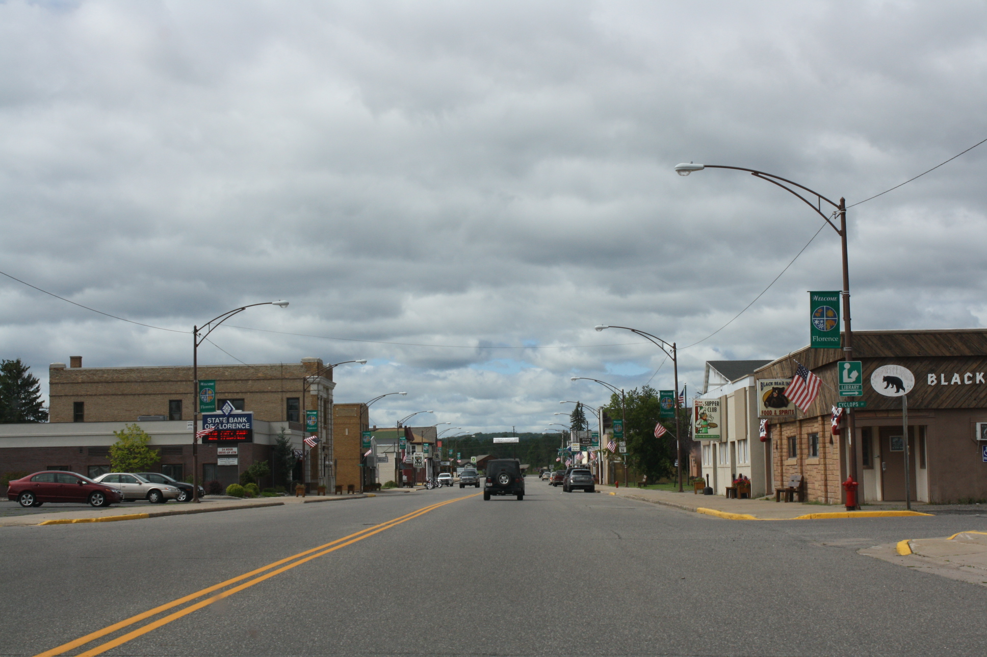 Downtown Florence (community), Wisconsin along U.S. Route 2 / U.S. Route 141.